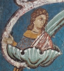 Detail of fresco Loza Nemanjića, Urošica, Visoki Dečani, Serbia.